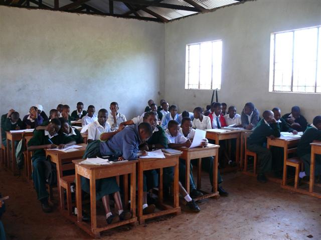 Msaranga Secondary School, Moshi, Kilimanjaro Tanzania classroom